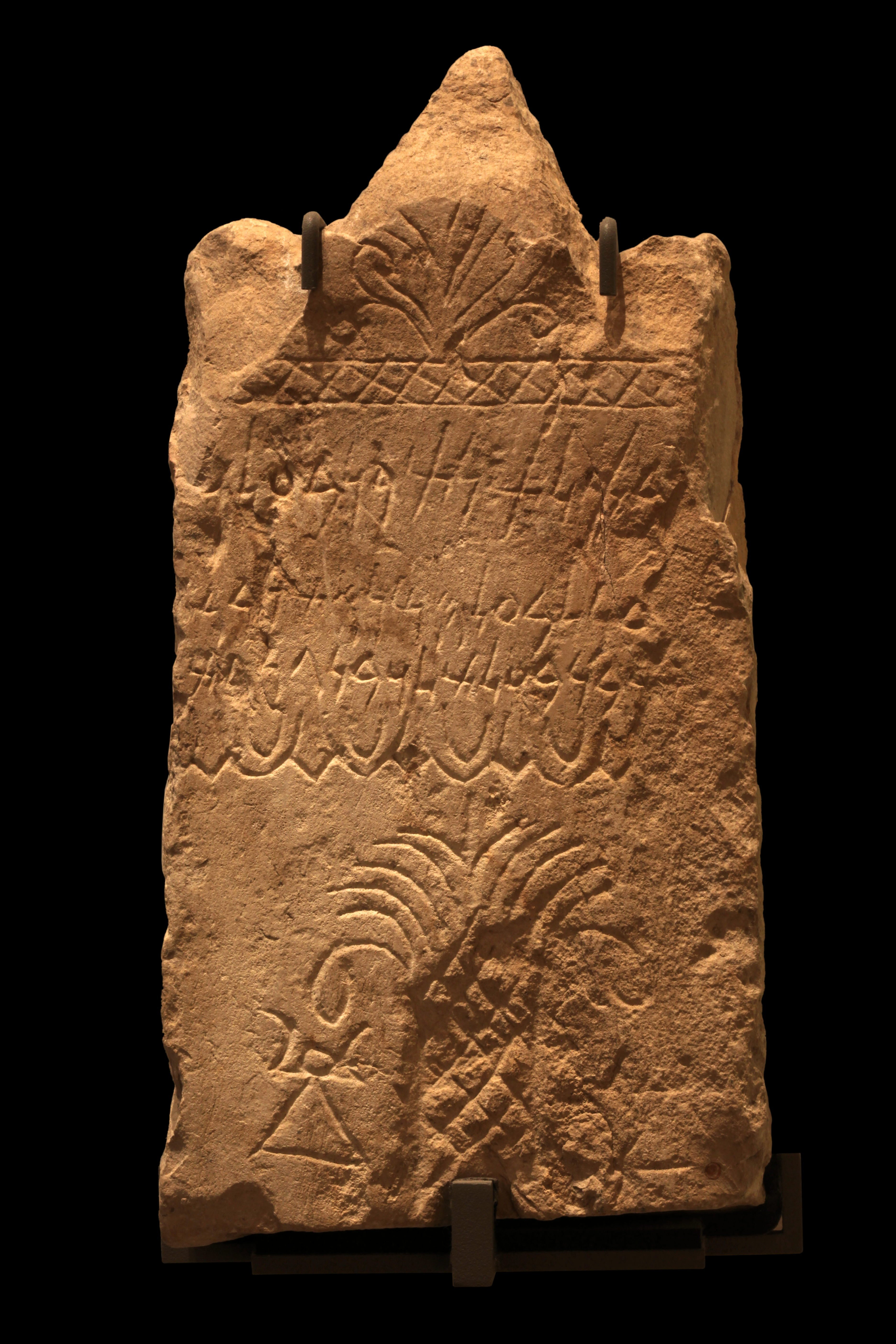 Punic stele decorated with a palm and the sign of Tanit Tophet of Carthage.